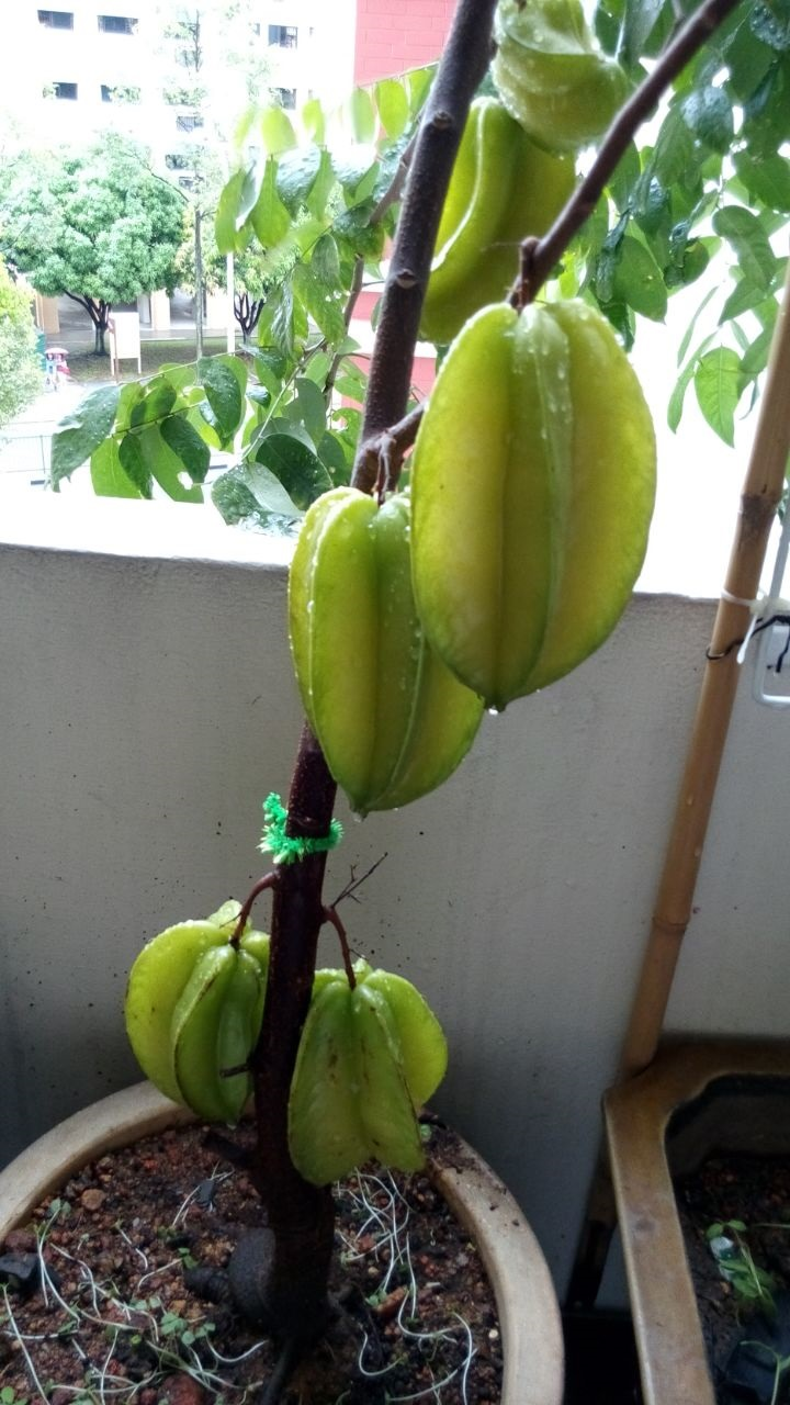 Carambola in Singapore.